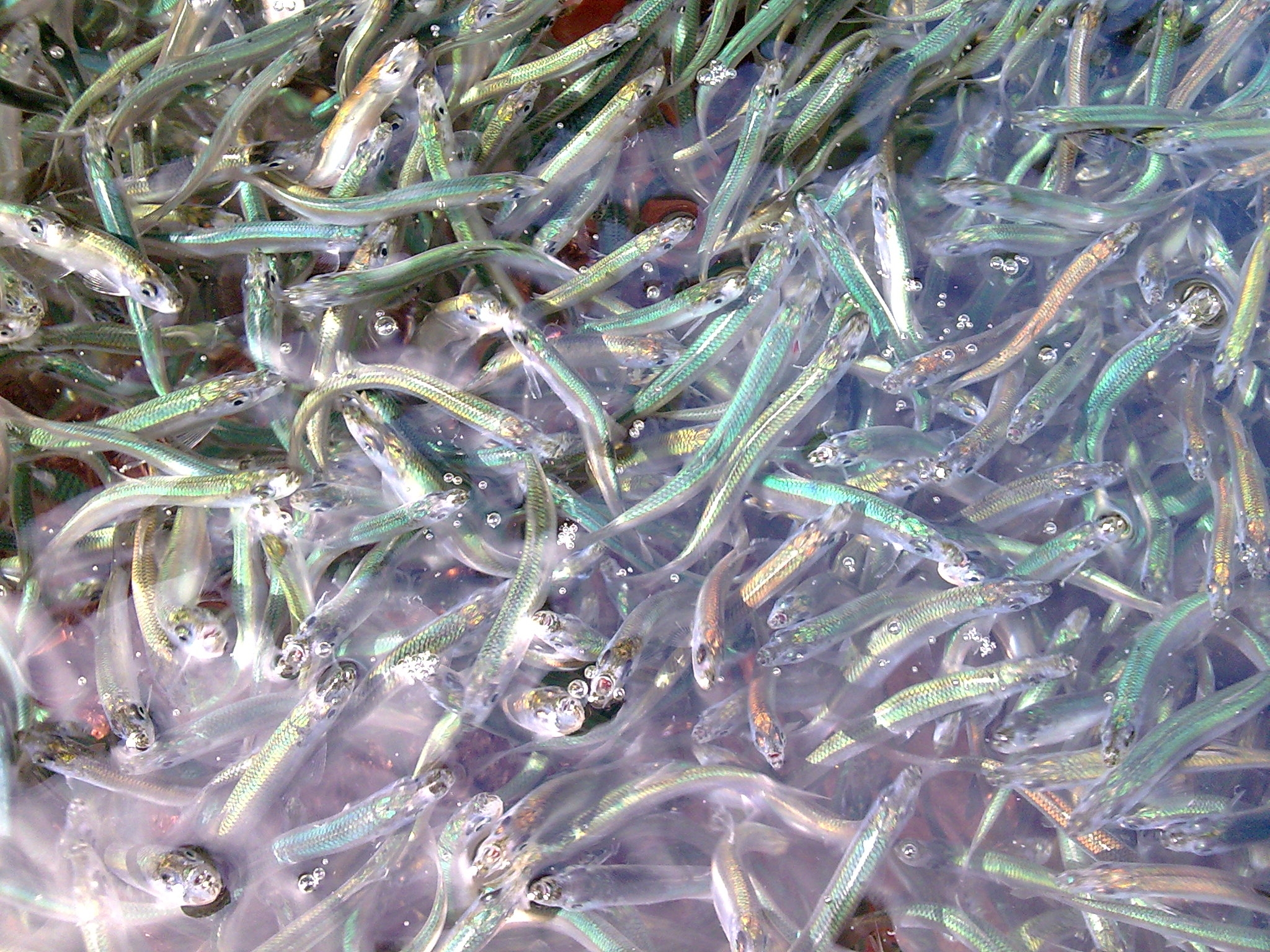 A shoal of small fish (~10cm long) trapped in a rockpool. Taken on a rocky beach on Holy Island, Wales.